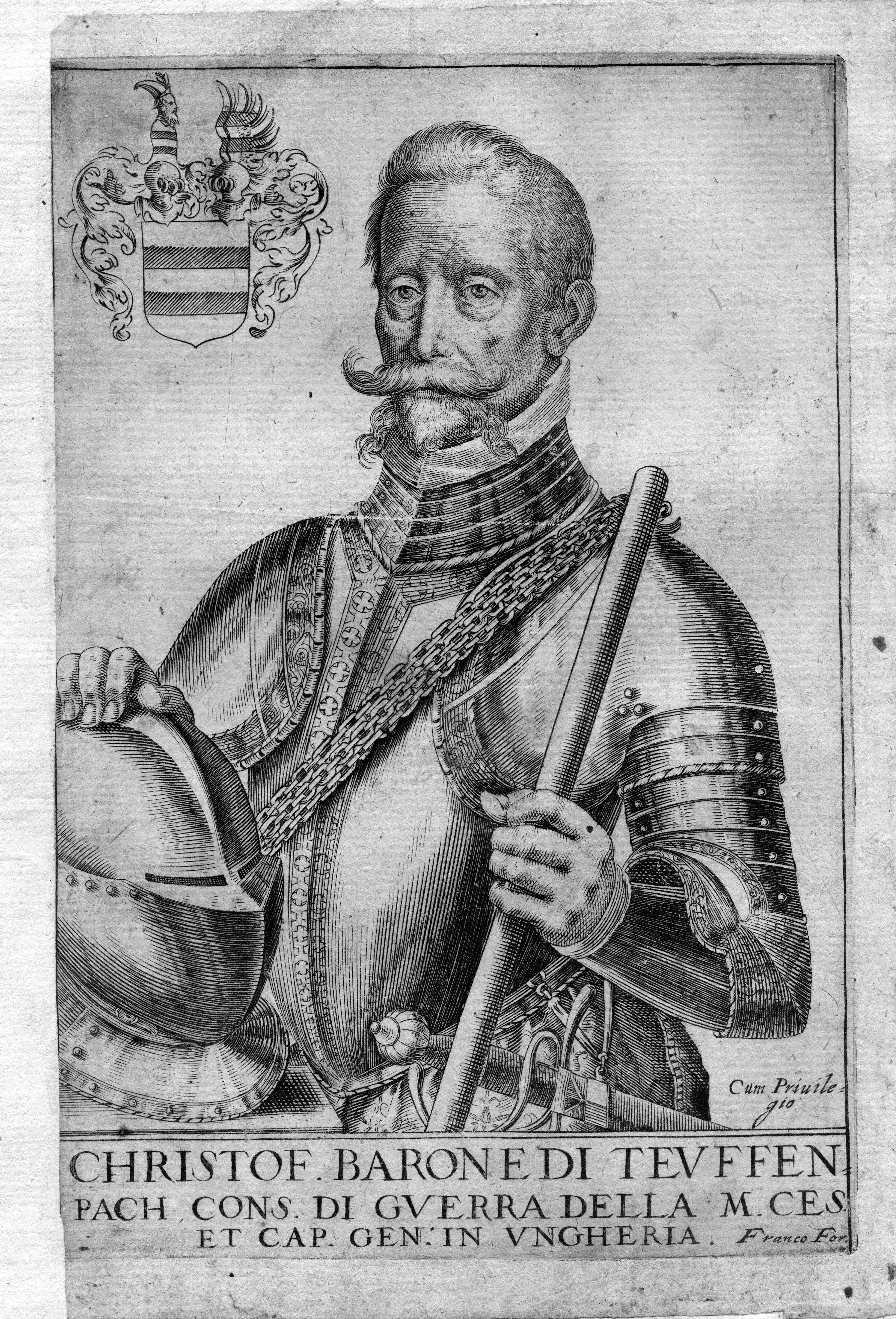 Christoph von Teuffenbach, Baron